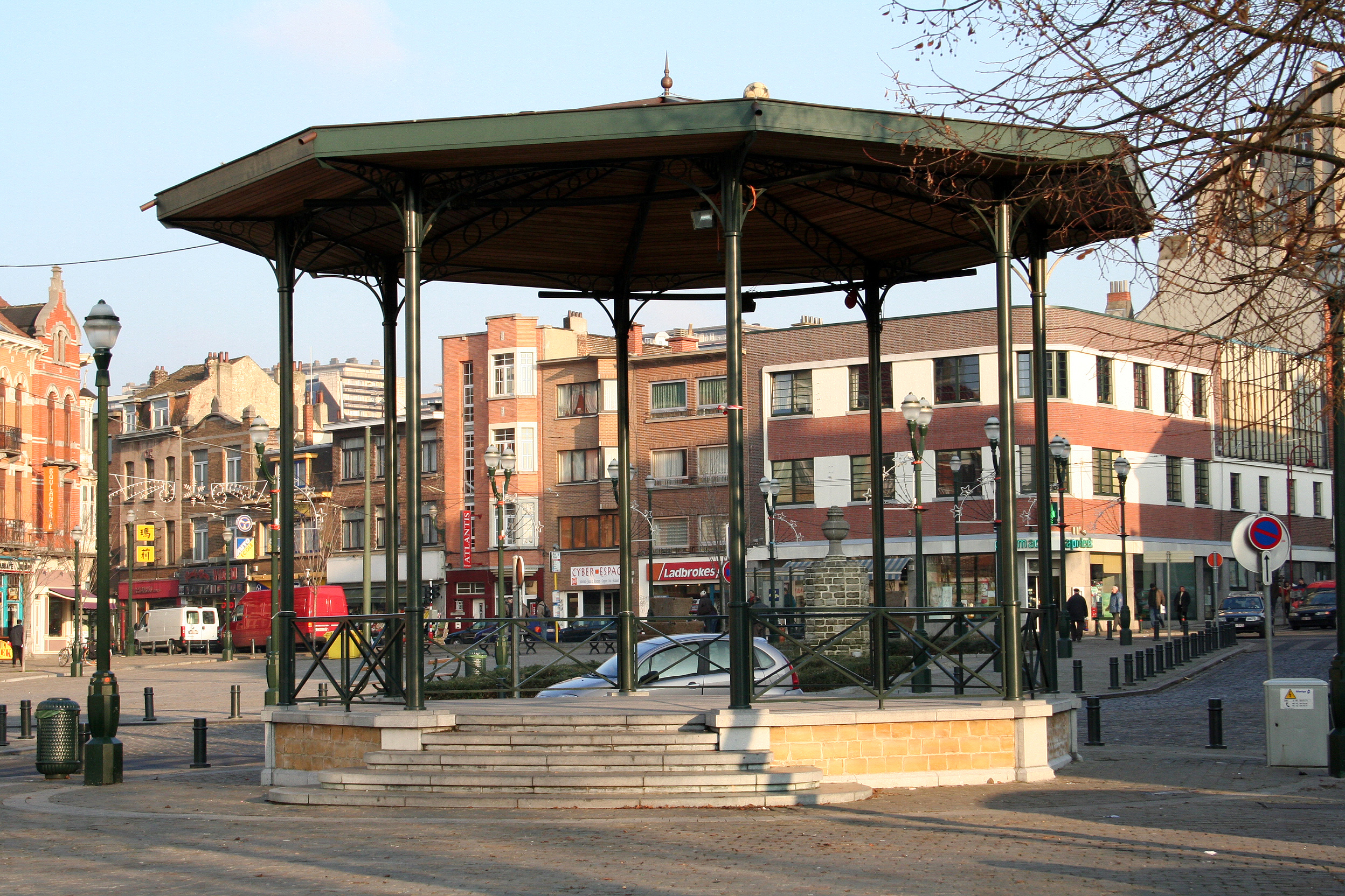 Forest (Belgium), the pavilion of the Place Saint-Denis.